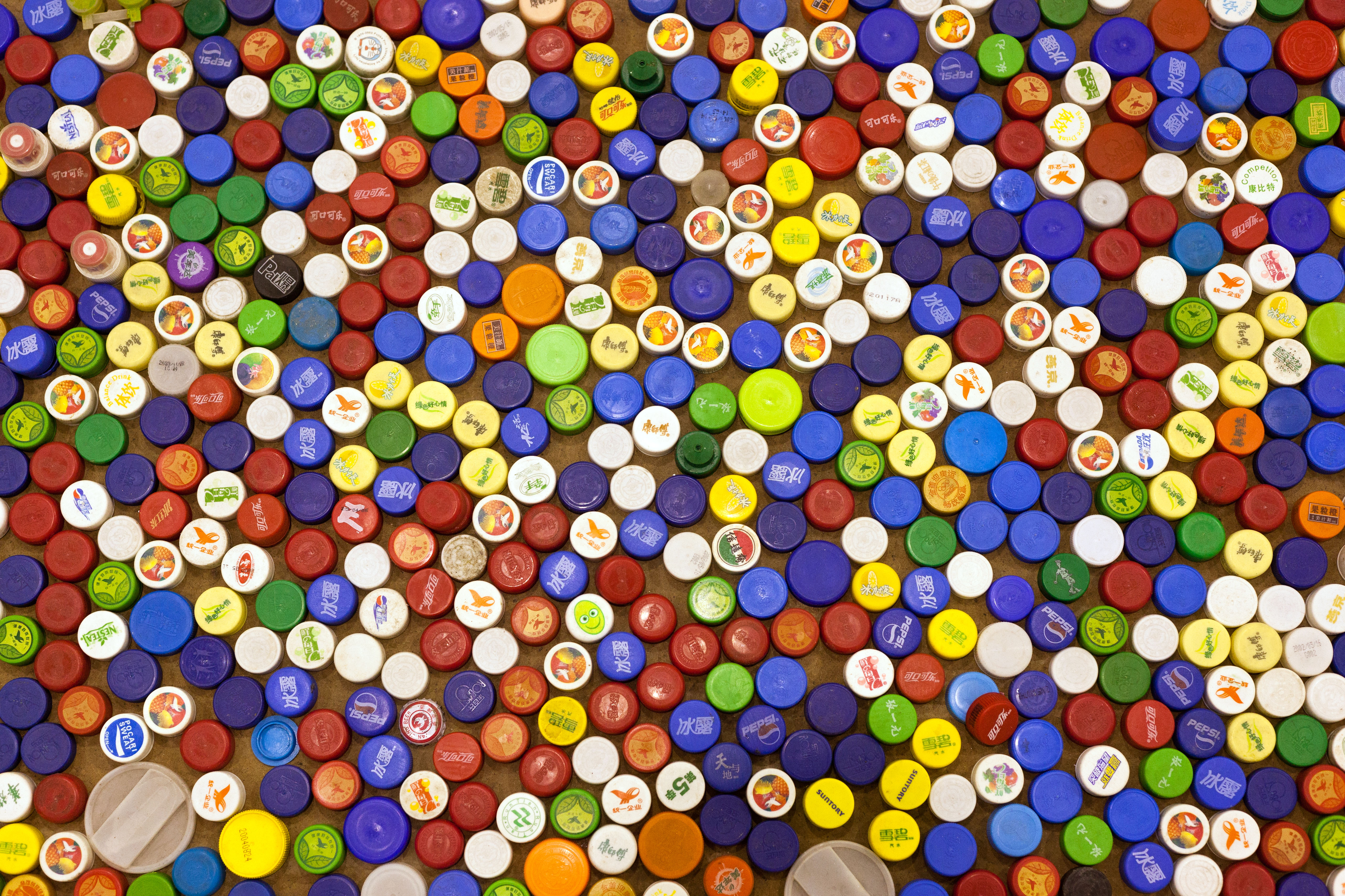 Bottle caps featured in the exhibit 'Waste Not' by Song Dong.